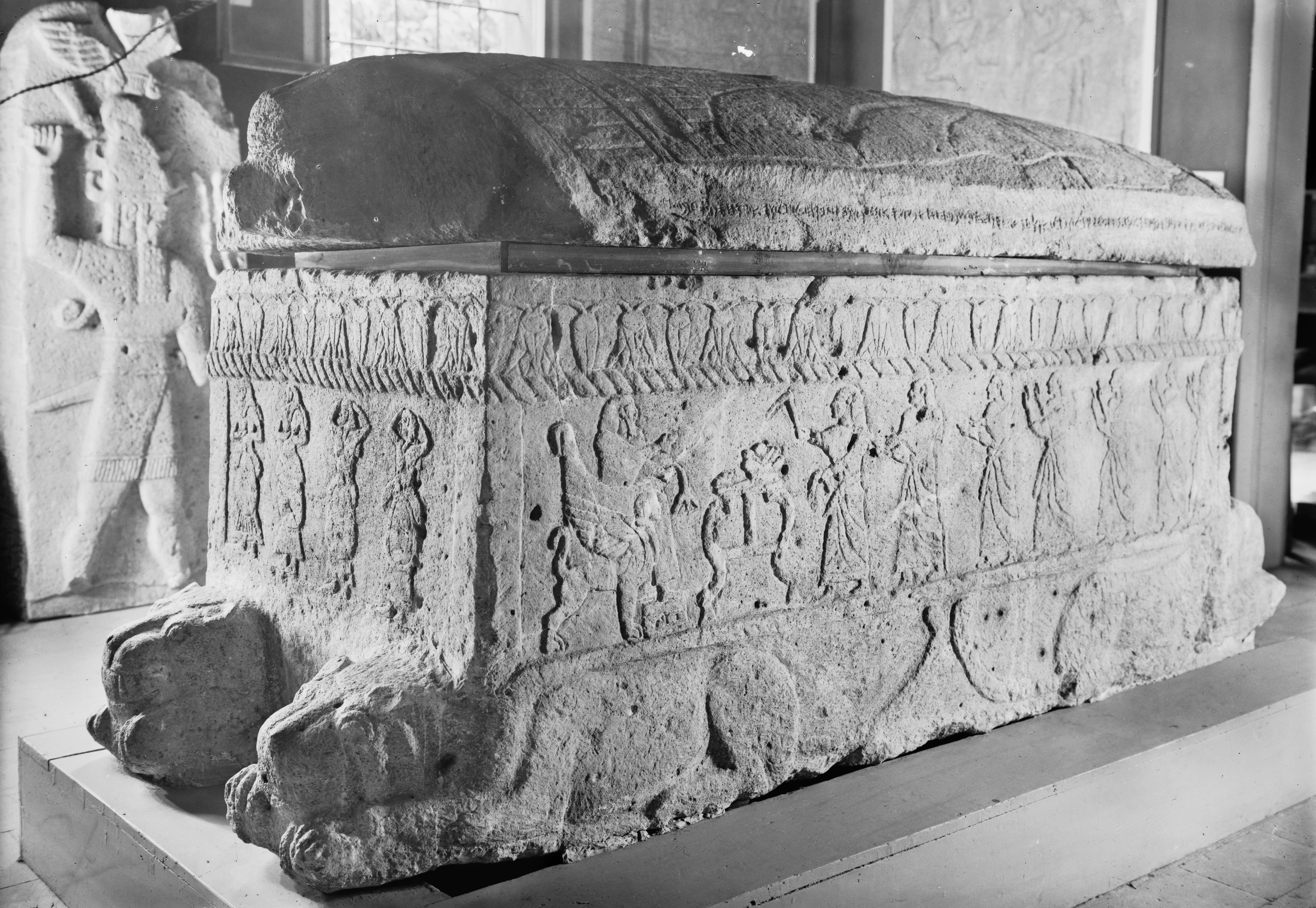 Sarcophagus of Ahiram, King of Biblos (Phoenicia) in XIII-X c. BC. Kept in Beirut National Museum. Sarcophagus made in around 1000 BC.